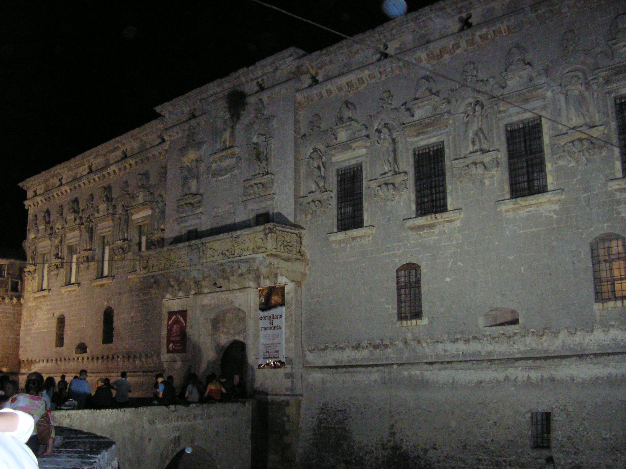 Description: Corigliano d'otranto (Le) Italy Source: The Doc